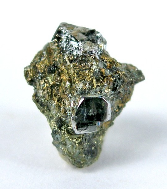 Sperrylite Locality: Vermilion Mine, Denison Township, Sudbury District, Ontario, Canada (Locality at ) Size: 0.8 x 0.6 x 0.3 cm. Emplaced on massive chalcopyrite are a few splendent, silvery, crystals of sperrylite, to .2 cm across. Sperrylite is a rare platinum arsenide. Canadian specimens are VERY rare and old, and hard to obtain! This crystal is small but so sharply cubic, and bright, it leaps out.